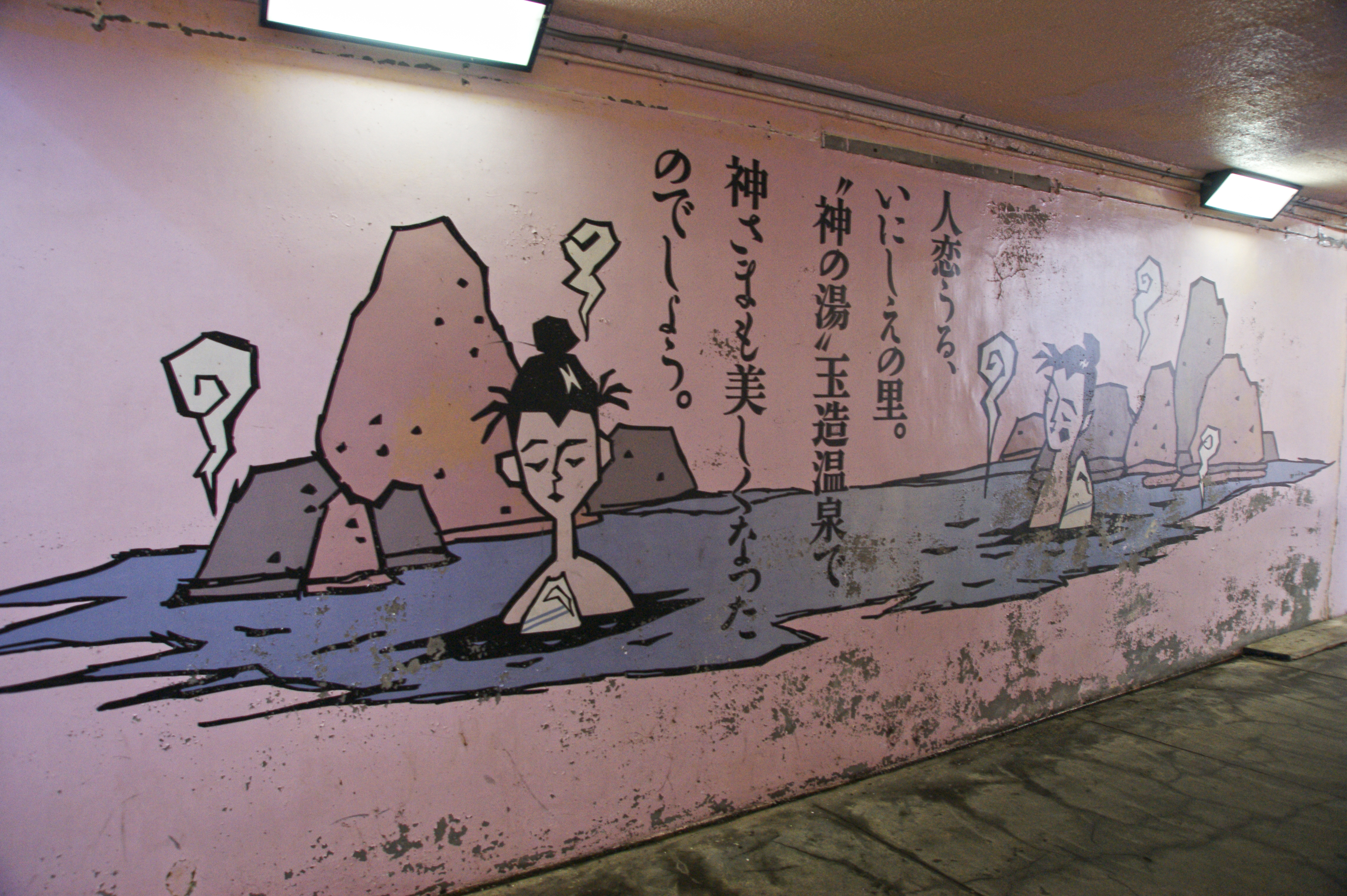 Tamatsukuri-Onsen Station in Matsue, Shimane prefecture, Japan